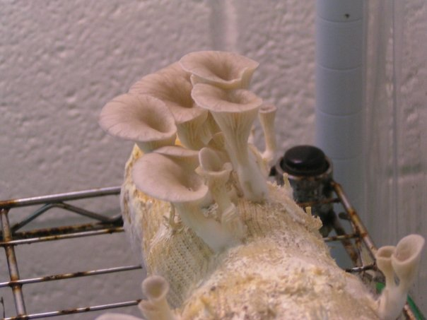 P. pulmonarius fruits from straw and rye grain (compressed in a sock) in an indoor greenhouse. Photo by Aaron Halfaker.